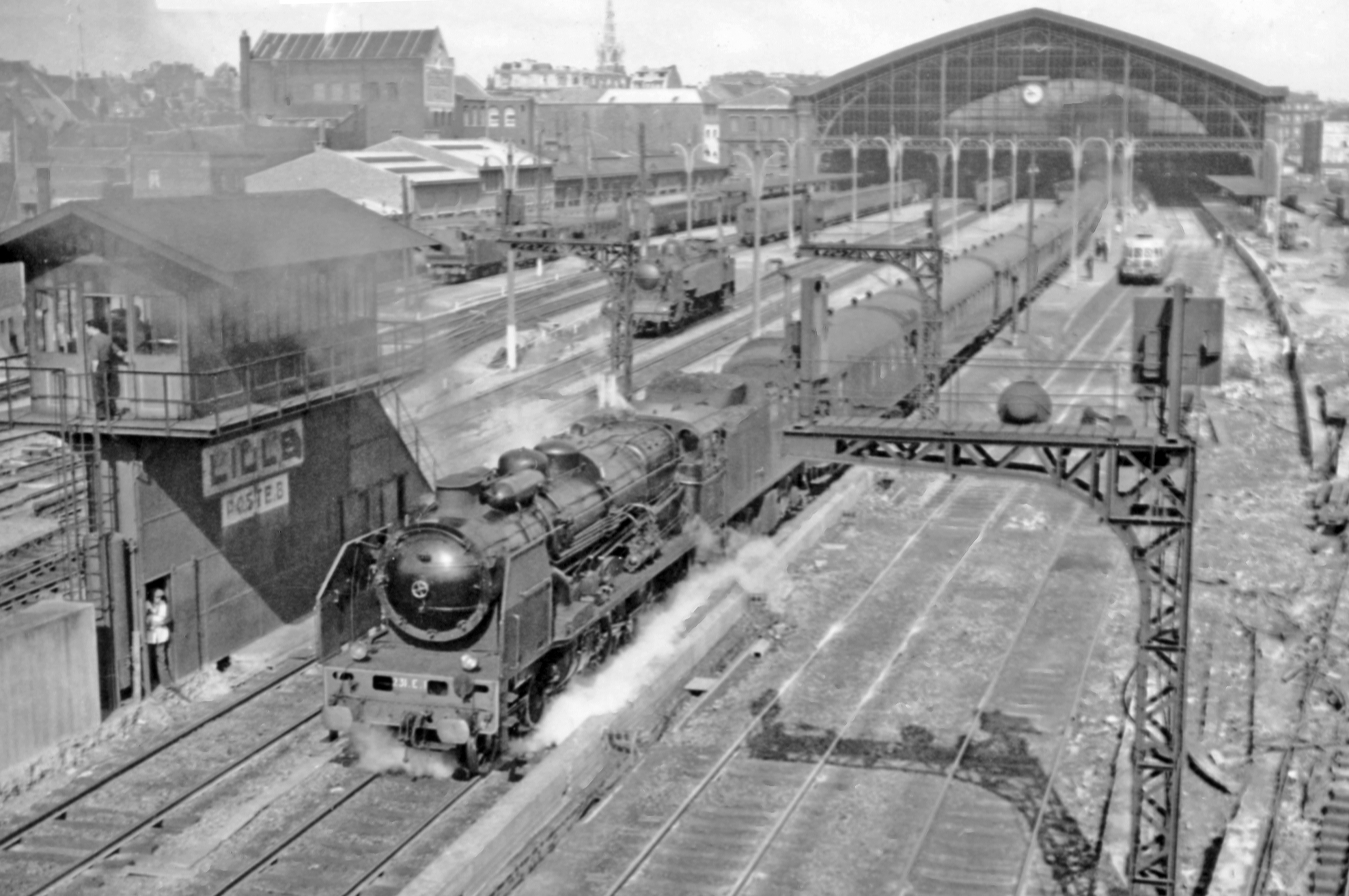 Express for Paris leaving Lille (Nord) Fives Station, with a SNCF class 231E 4-6-2 and passing the major Poste (signal-box) No. 8.